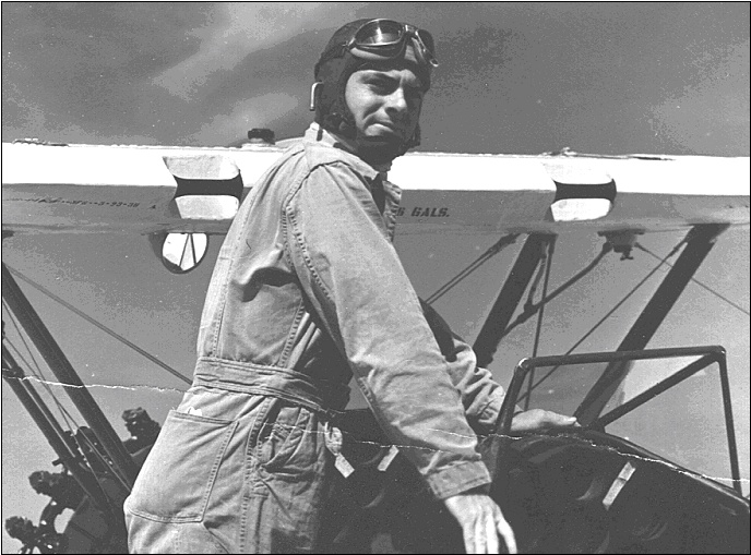 Army photograph of Aviation Cadet Edwin A. Doss during basic flight training in Glendale, California. The airplane is a Stearman primary trainer biplane.